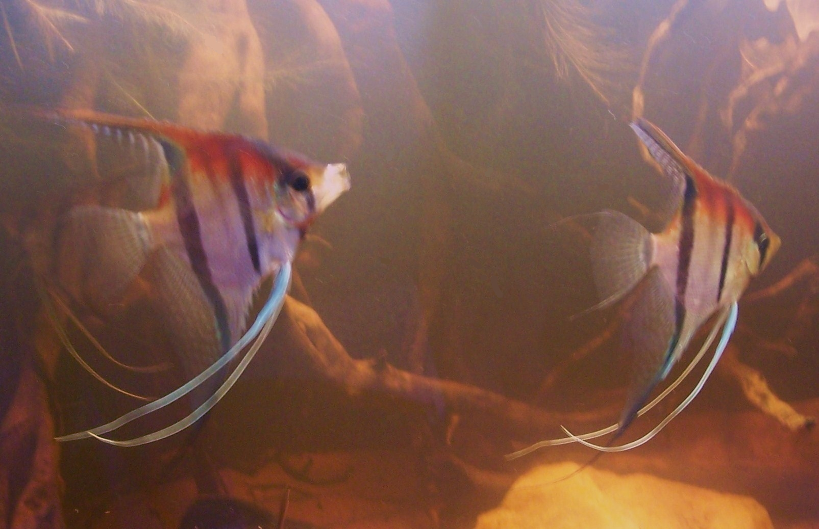 A pair of Pterophyllum sp. Manacapuru in an Amazon blackwater biotope aquarium. Warsaw Zoological Garden. AQUAEL fishkeeping exhibition.